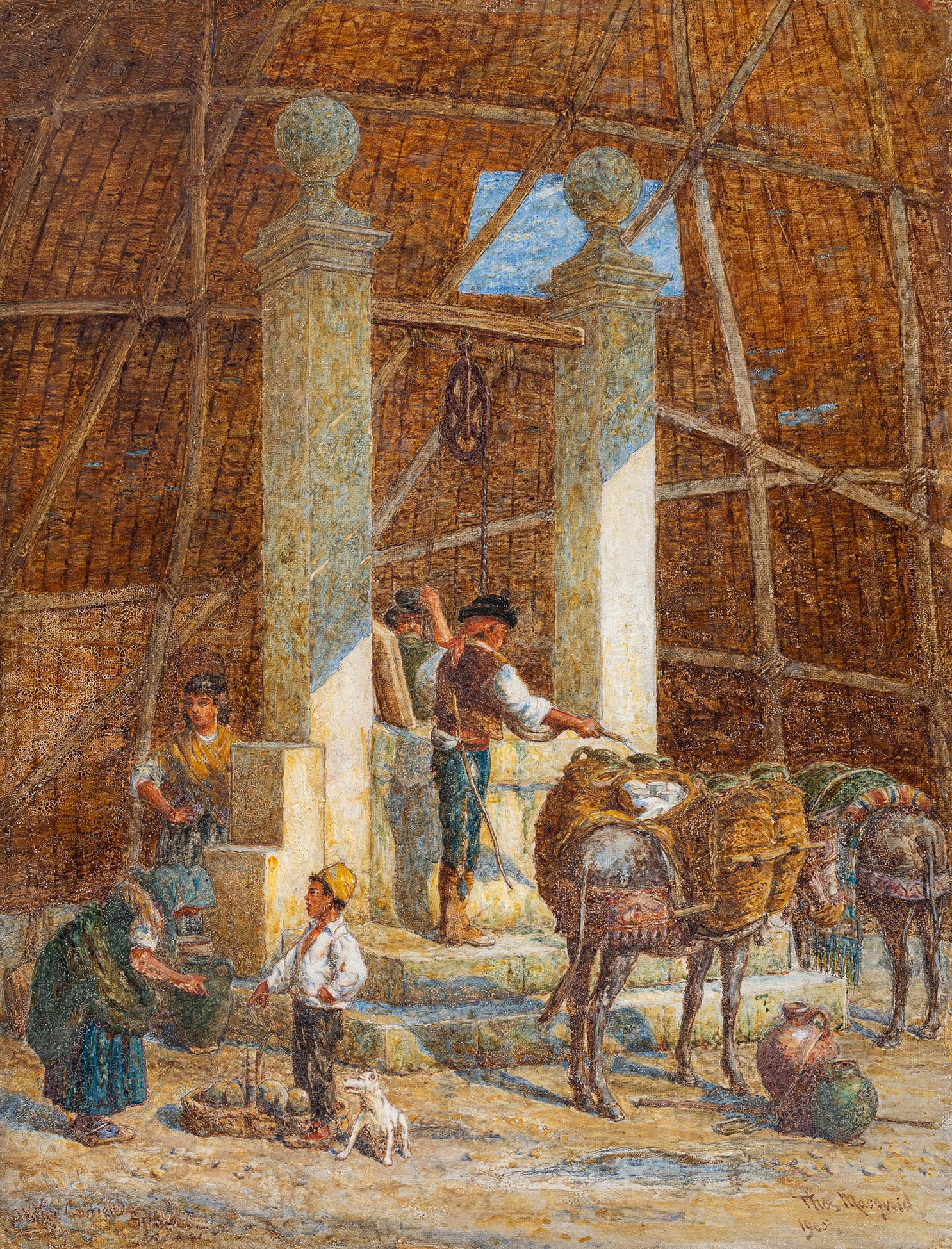 Offered for sale by Abbott and Holder in April 2020 when it was described as "A Spanish Market. Oil on canvas, unstretched, mounted. Signed and dated, 1905. 15.25x11.5 inches."